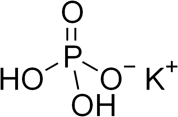 chemical structure of monopotassium phosphate